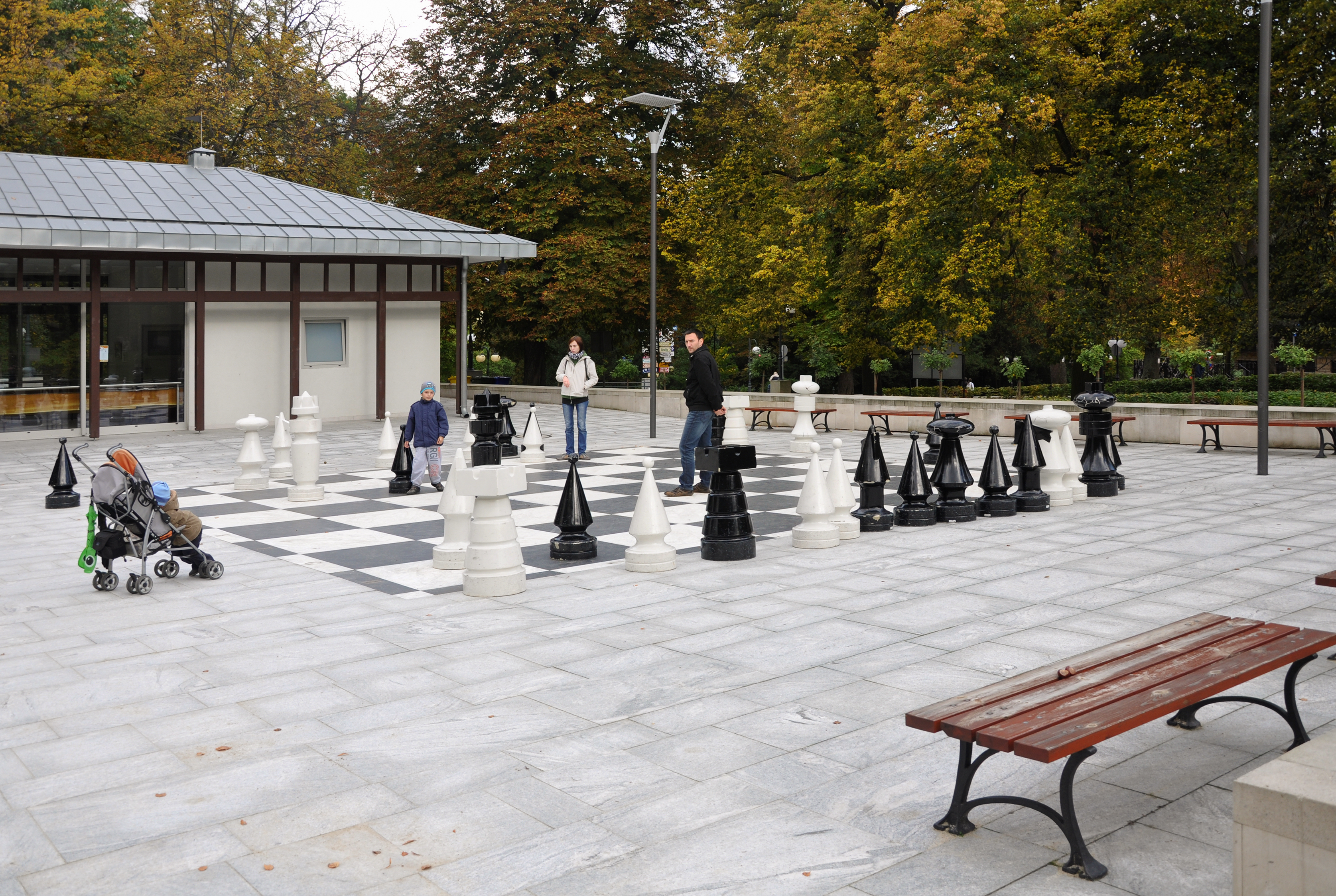 Giant street chess in spa park in Polanica-Zdrój